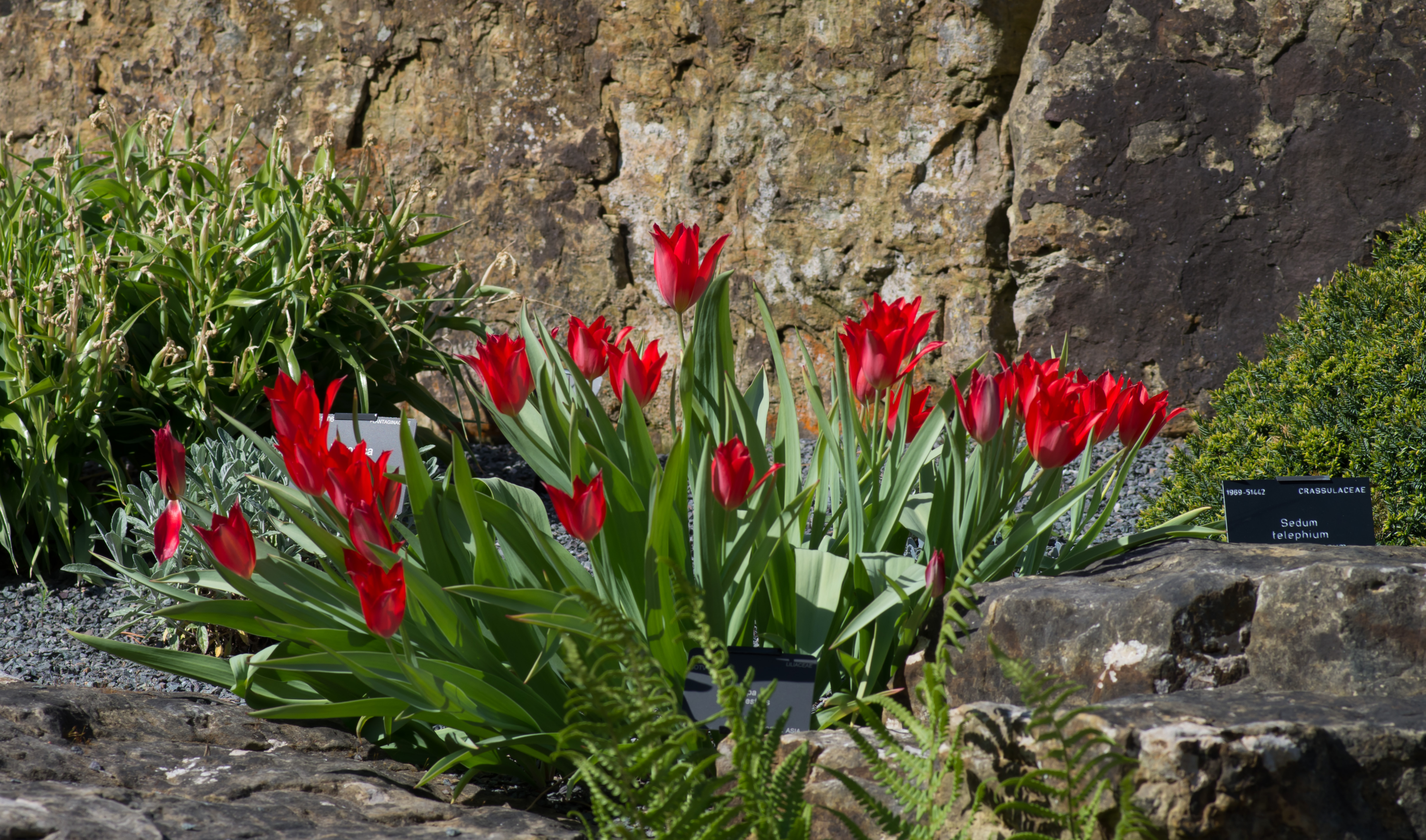 Tulipa subpraestans - Kew Gardens England